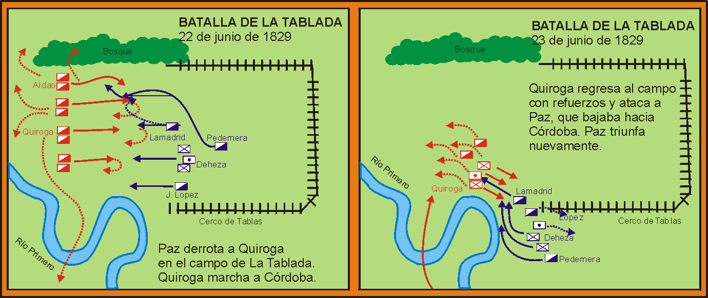 The Battle of La Tablada in two parts: first day (Paz defeat Quiroga) an descond day (Quiroga counterattack but Paz win another time).